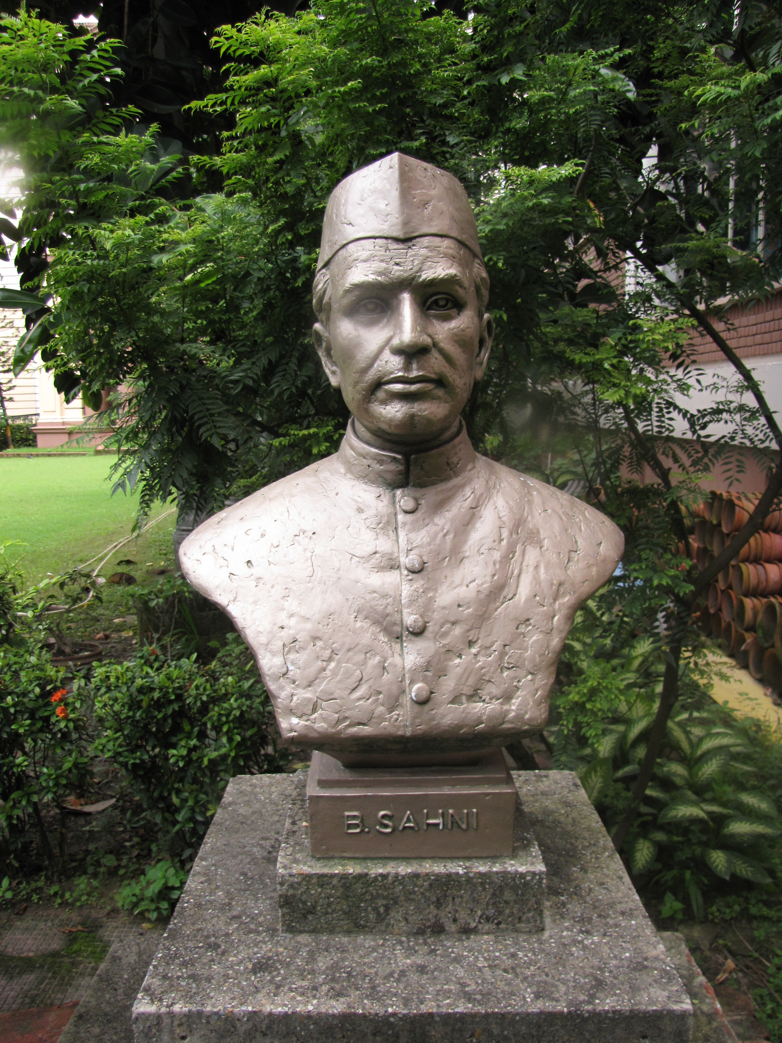 Bust of Birbal Sahni, a pioneering Indian paleo-botanist in the garden of Birla Industrial & Technological Museum.